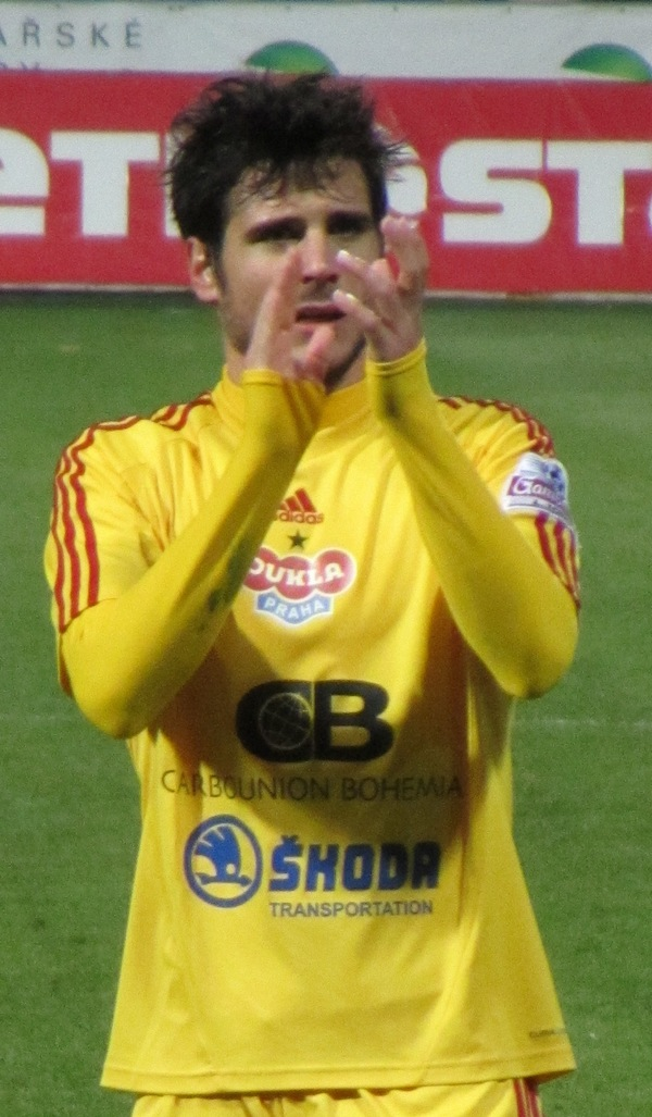 José Romera of FK Dukla Praha after the match against FC Viktoria Plzeň